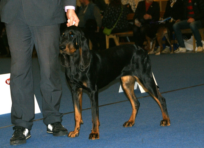 Black and Tan Coonhound female.